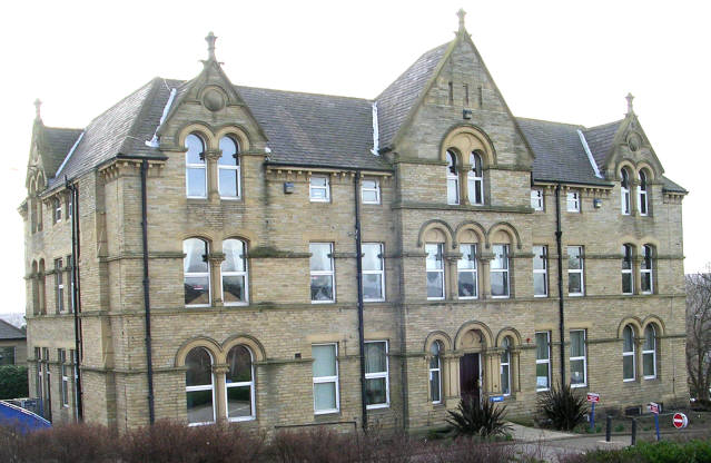 Leeds Road Hospital - Admin Building This property formed part of the original Leeds Road Fever Hospital and is now a part of Bradford NHS Trust